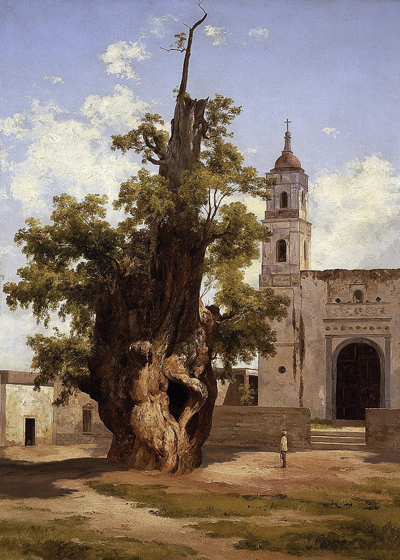 Ahuehuete de la noche triste, painting by José María Velasco.